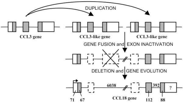 CCL18 gene evolution from